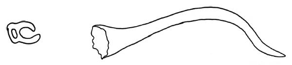 Drawing of love dart of Hygromia cinctella. Cross-section (on the left) and lateral view (on the right)